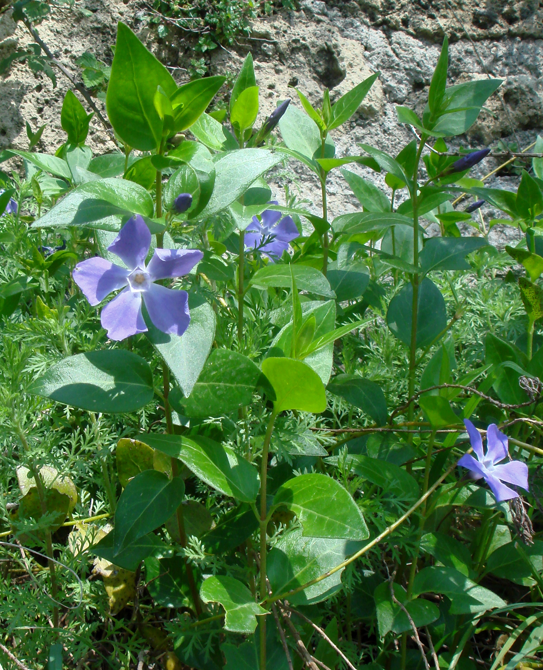 Flowers and buds of Vinca major, ruderal habitus in Italy near Institution:Palazzo Farnese, Caprarola (growing wild on street side, did not seem to be planted).